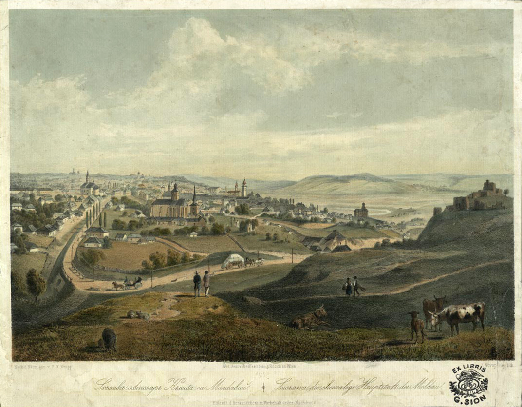 Suceava - painting by Franz Xavier Knapp (1870).